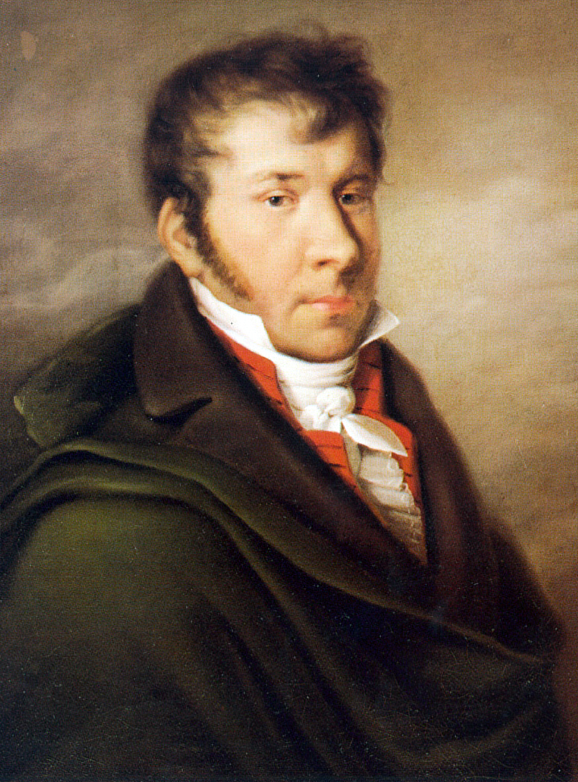 Depicted person: Johann Nepomuk Hummel